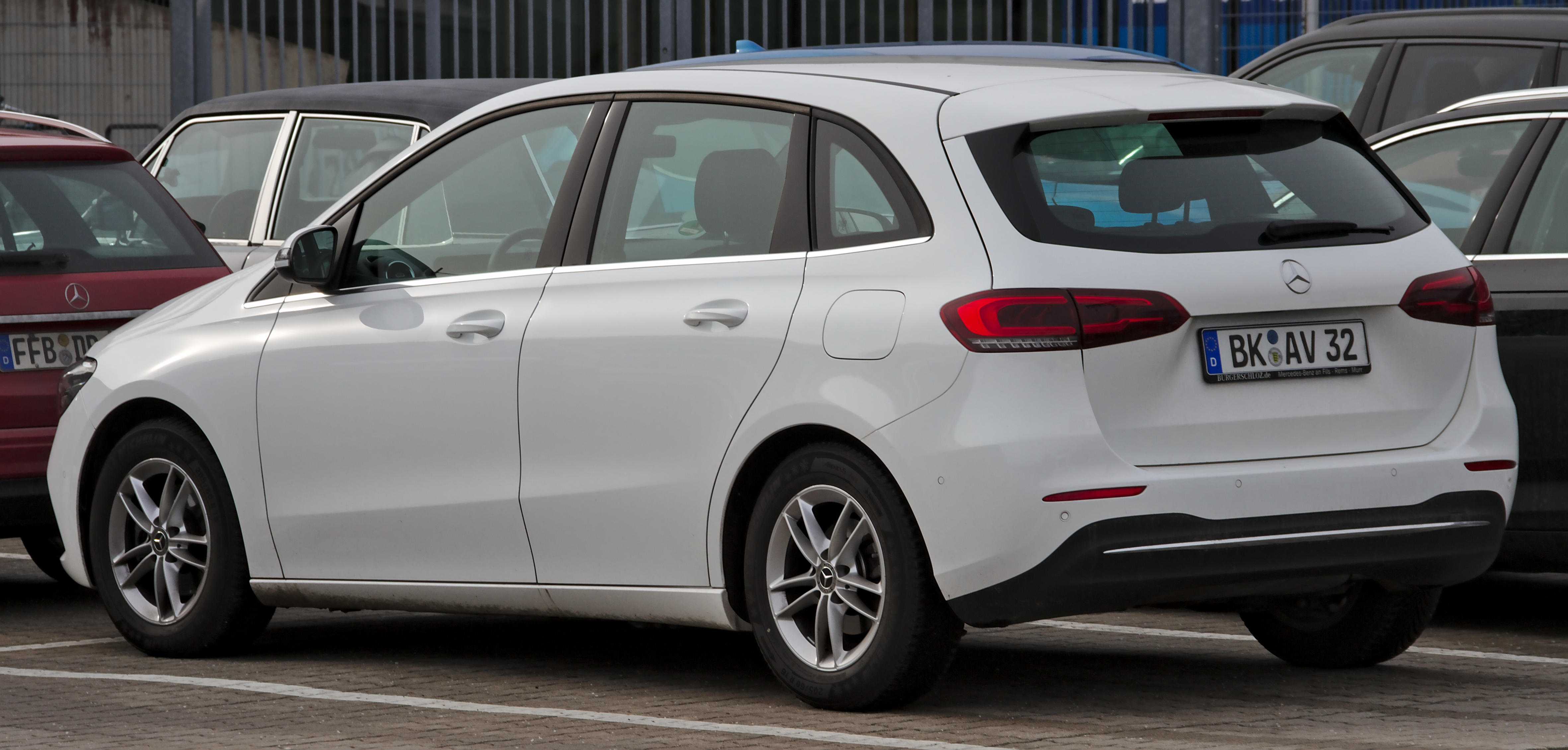 Mercedes-Benz_W247 at Retro Classics 2020